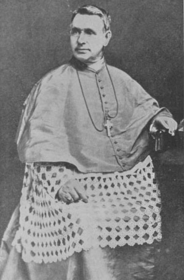 The Most Reverend Dr. Thomas Nulty, Roman Catholic Bishop of Meath from 1864-1898